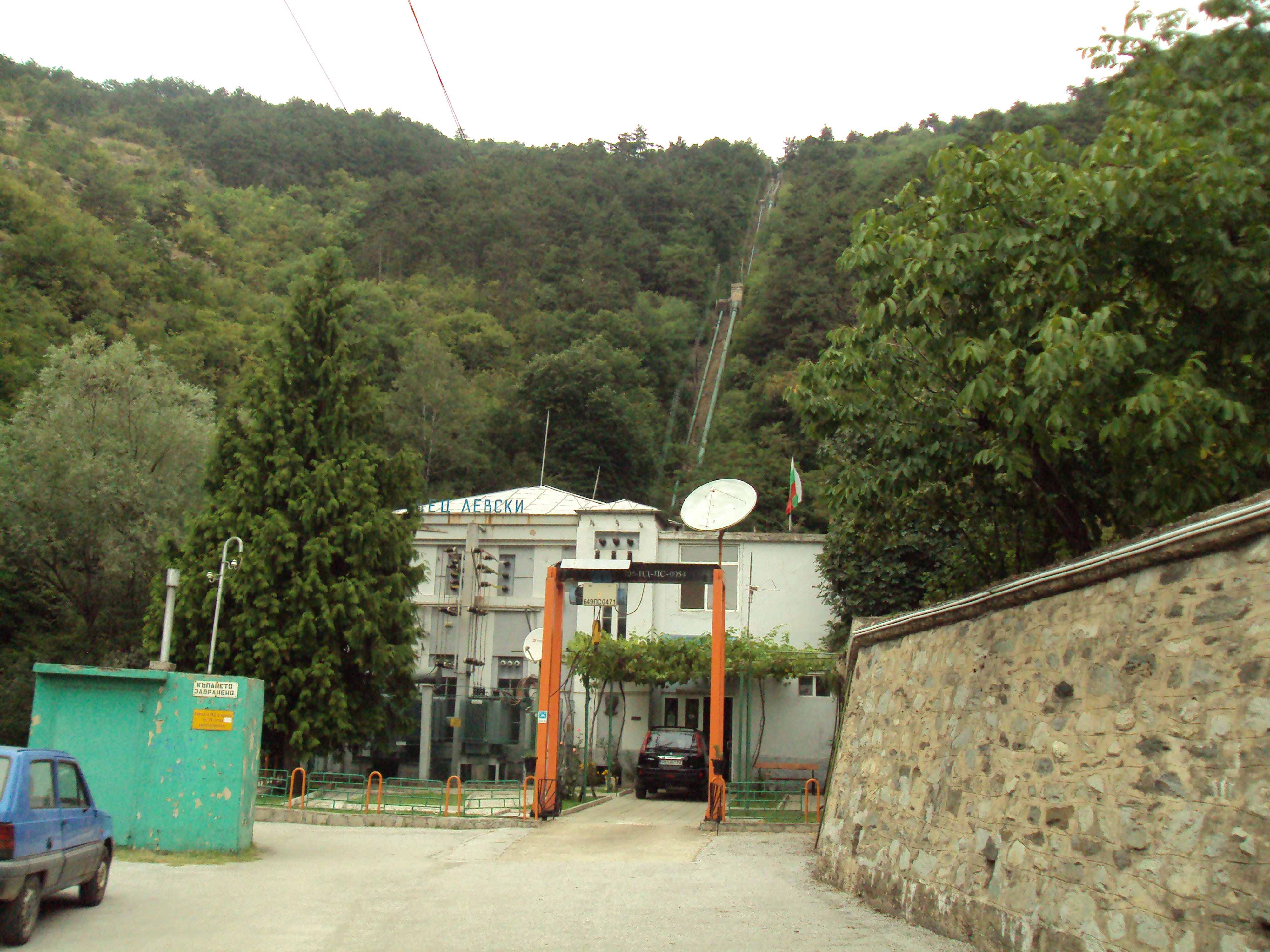 Hydroelectric power plant "Levski" in town Karlovo